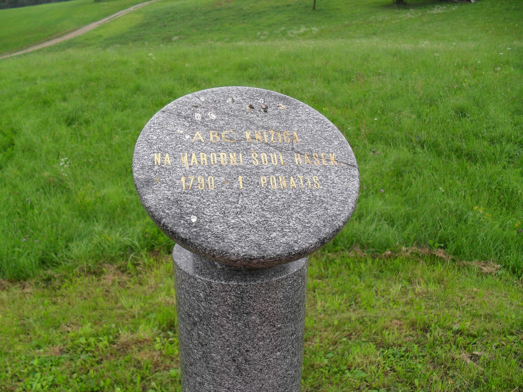 Column for Miklós Küzmics's ABC kni'zicza, Ivanovci